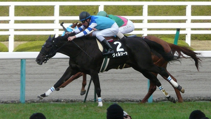 Verxina20111211